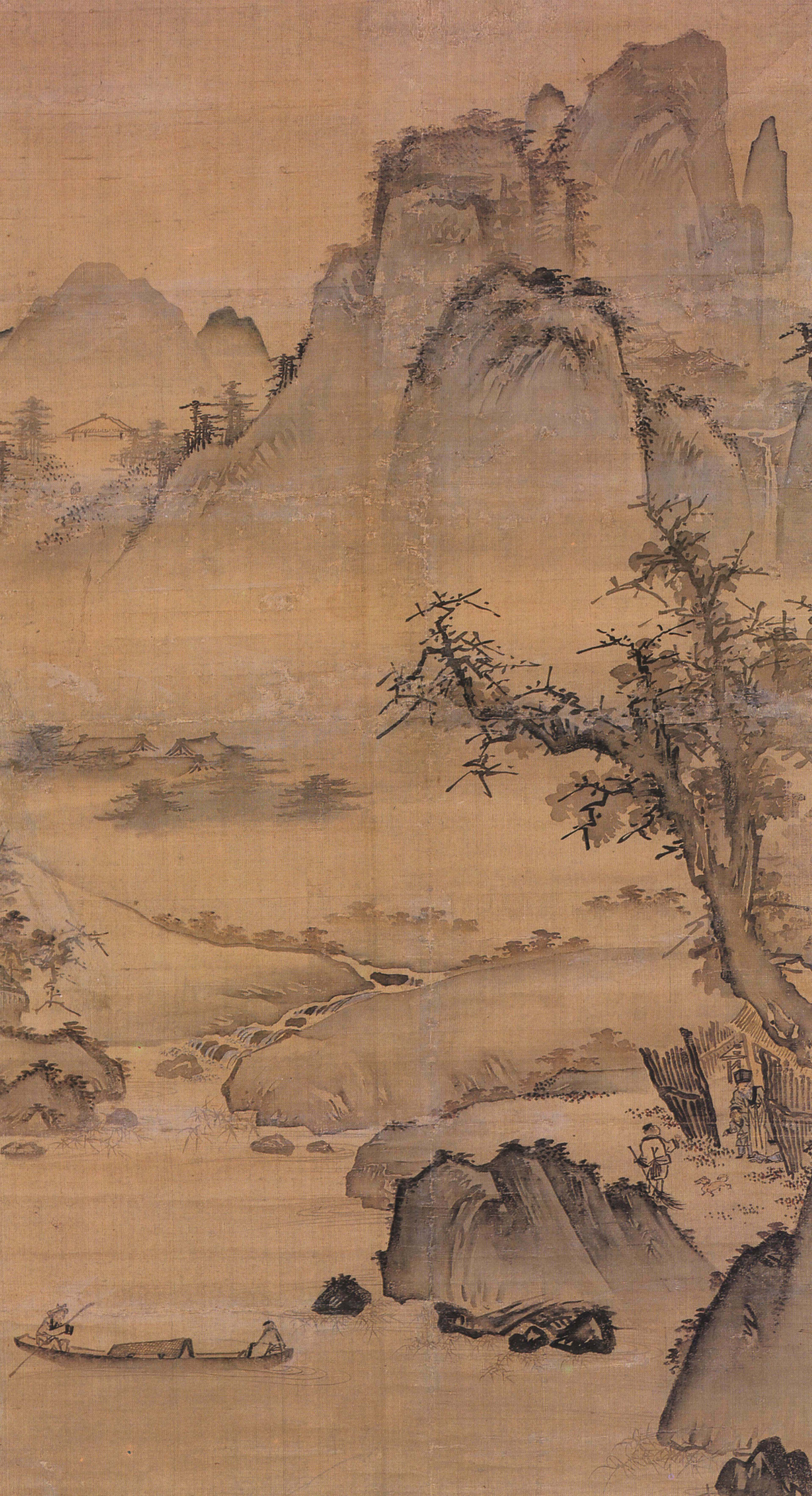 Landscape